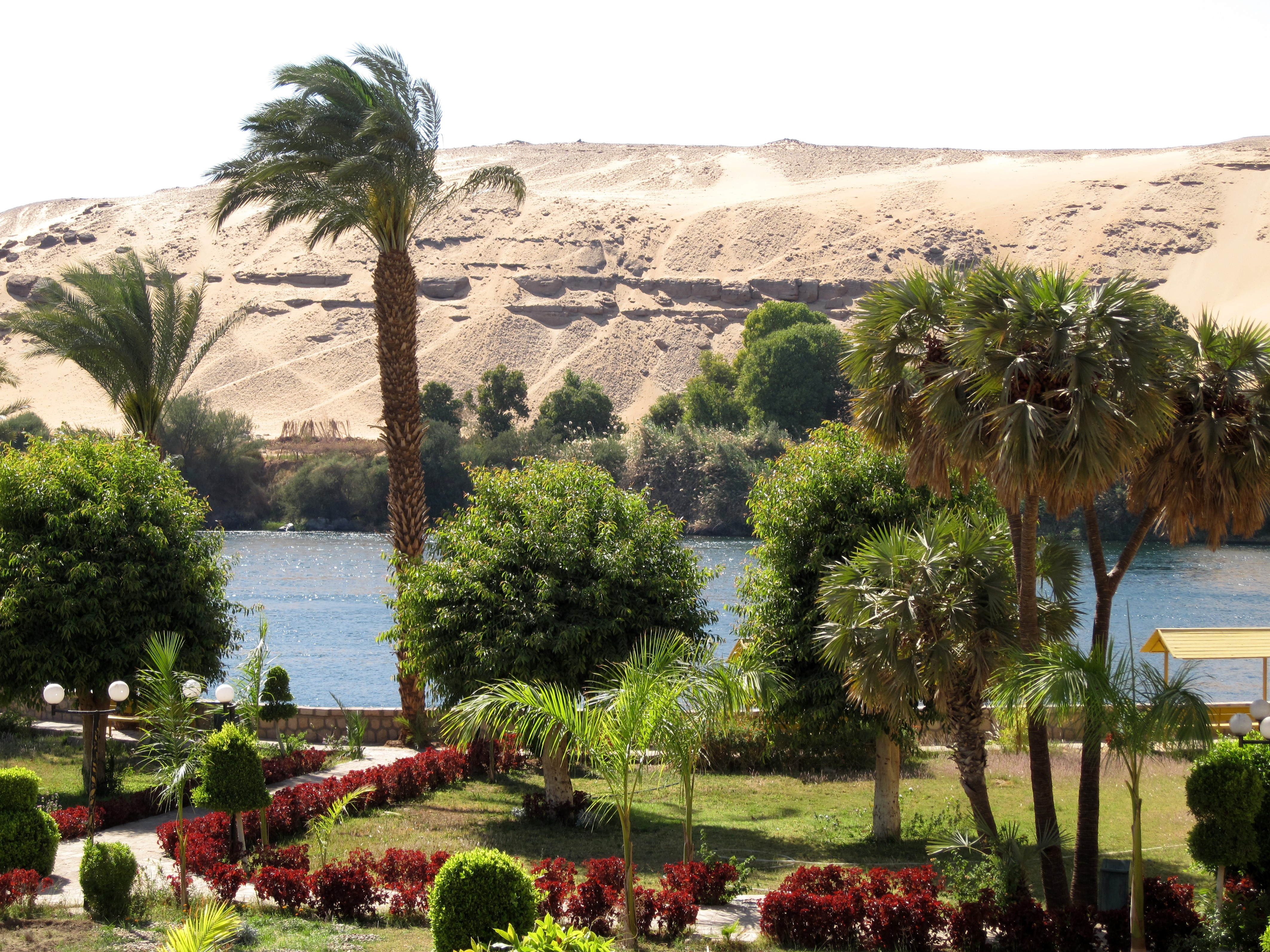 View of west bank of the Nile - from the Aswan Botanical Garden. On Kitchener's Island in the Nile, Aswan - Egypt.